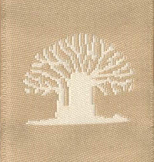 Ribbon section of the Order of the Boabab